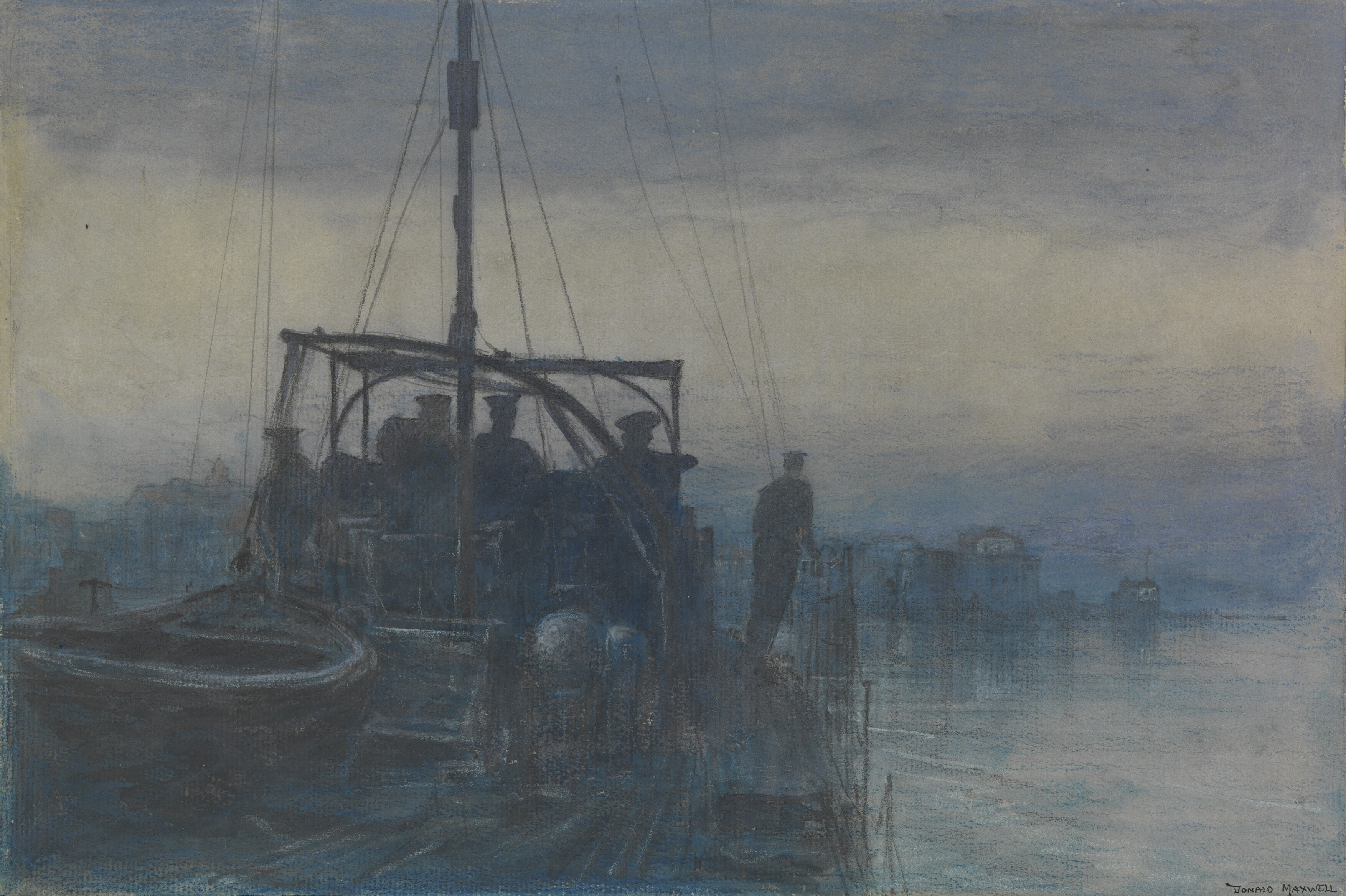 Ml 248 Entering Tyre image: a view from the deck of a Royal Navy motor launch, with members of the crew standing on deck looking towards the buildings of the city of Tyre in the background.